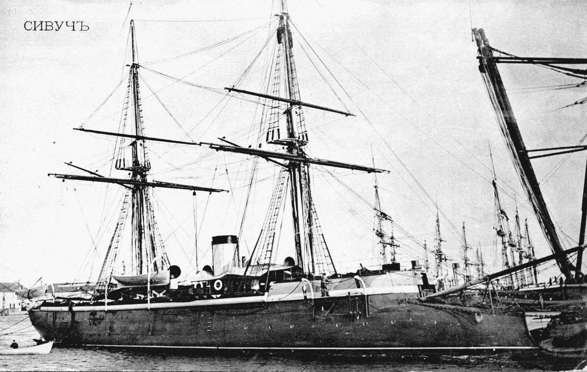 The Imperial Russian seagunboat «Sivuch».